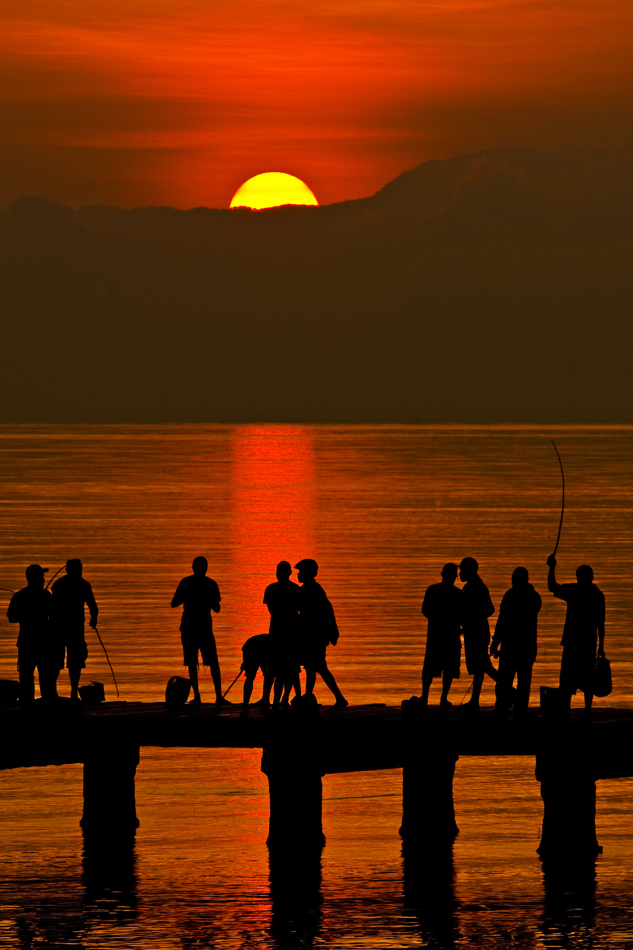 Fishing (Vunapope, East New Britain, Papua New Guinea). Česky: Rybáři ve Vunapope, Papua-Nová Guinea